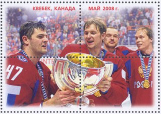 The central block of a sheet of Russian stamp no. 1285 commemorating Russia's winning of the 2008 IIHF World Championship.